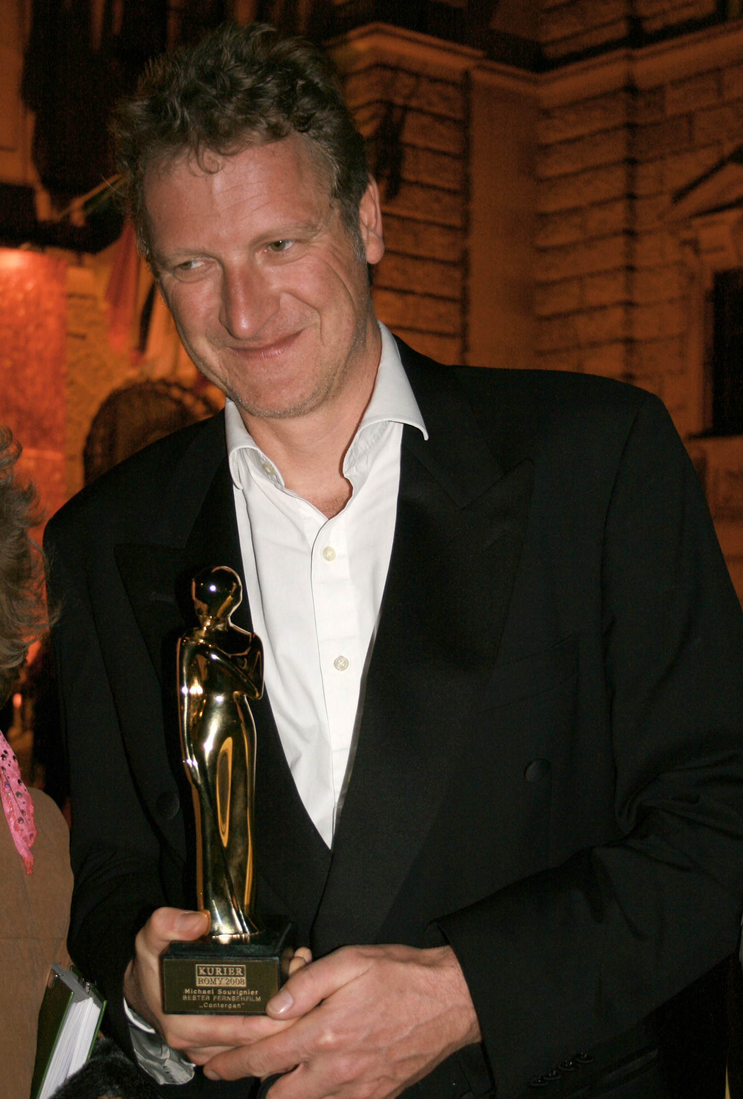 Producer Michael Souvignier at the Romy TV awards (Hofburg Imperial Palace in Vienna)